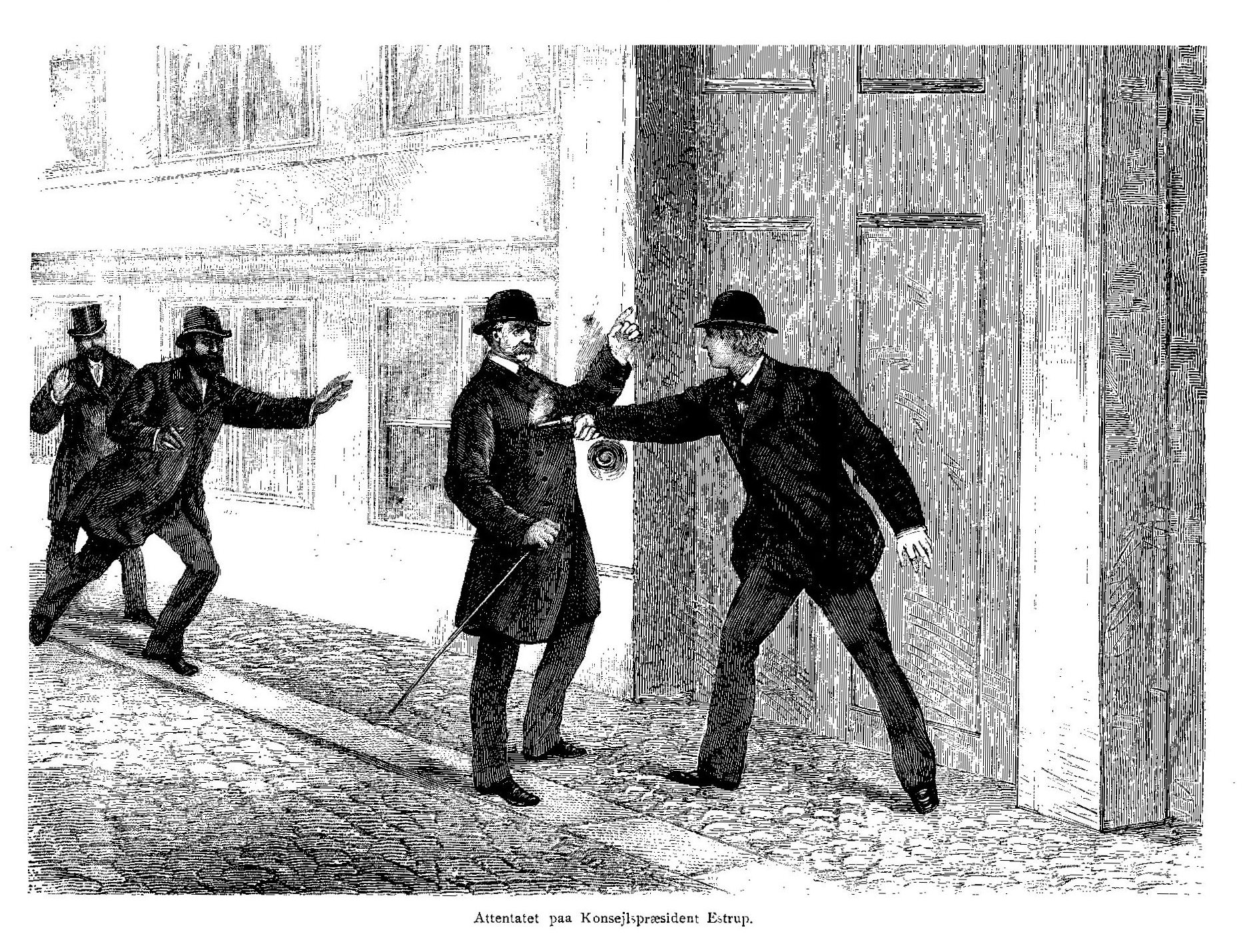 The unsuccessful assassination attempt by Julius Rasmussen on Danish council president J.B.S. Estrup on October 21, 1885 in Copenhagen. Woodcut from Illustreret Tidende, October 25, 1885.